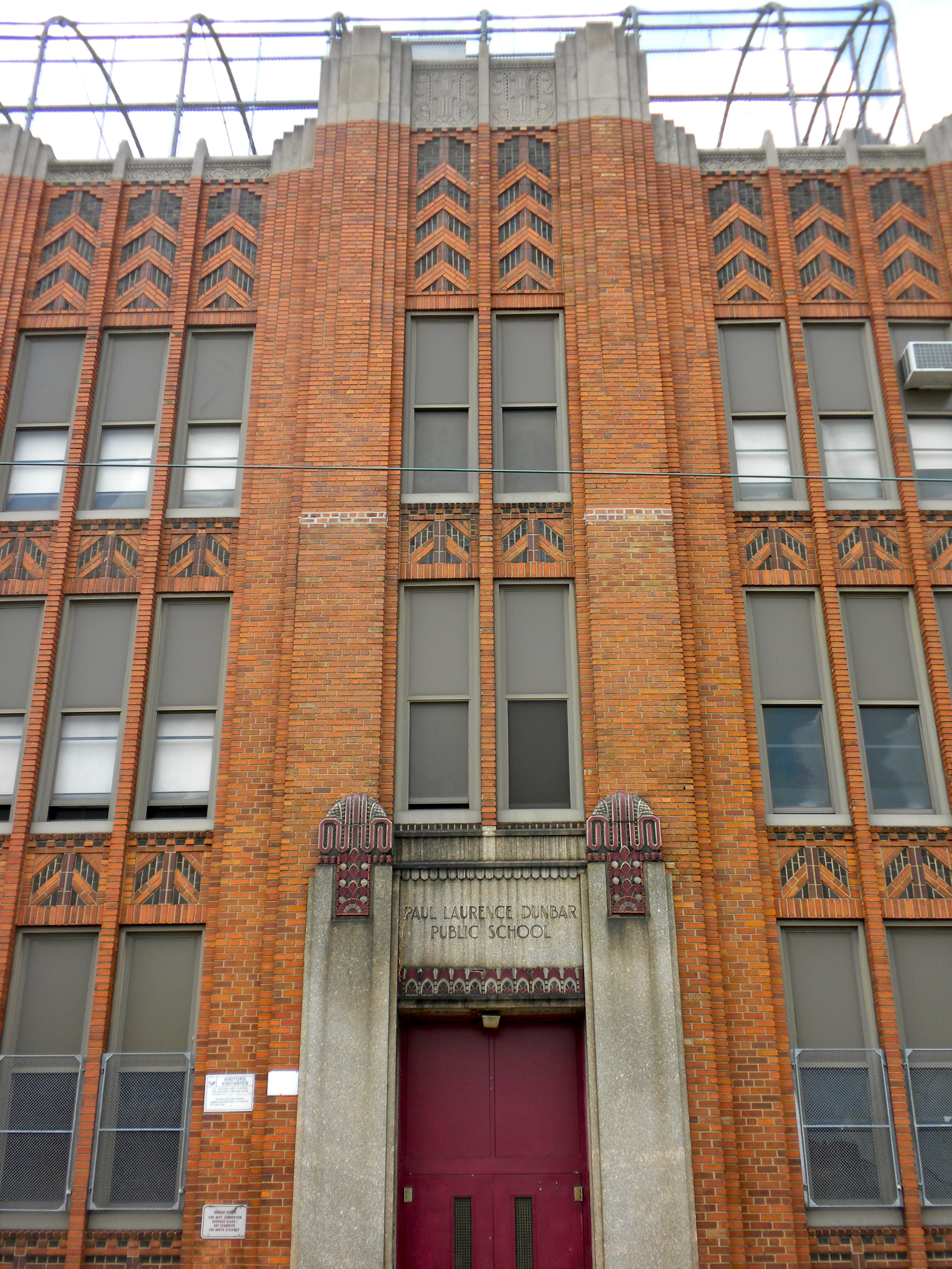 Paul Lawrence Dunbar School on the NRHP since December 4, 1986. Located at 1750 N. 12th St., Philadelphia near Temple University in North Philly